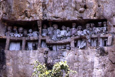 Toraja burial site. Toraja is an ethnic group in West and South Sulawesi, Indonesia